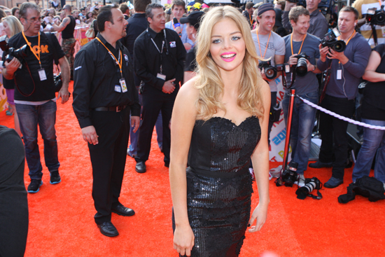 Actress Samara Weaving at the Nickelodeon Kid's Choice Awards 2011 in Australia